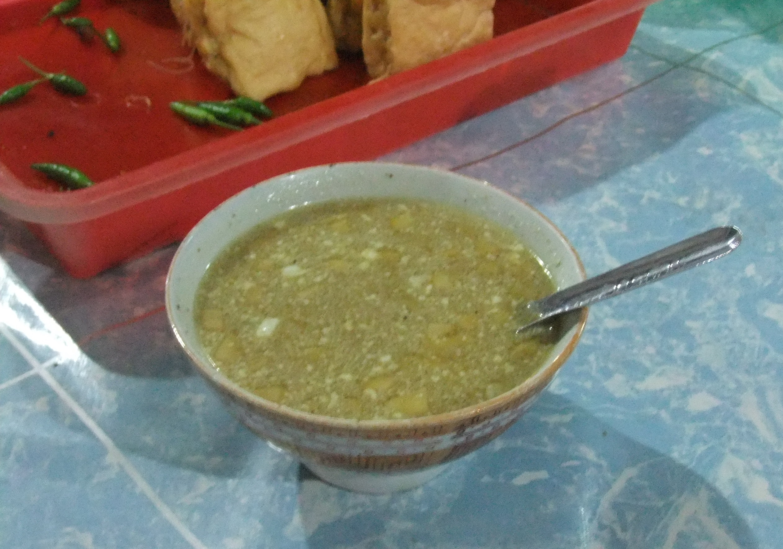 Adon-adon Coro, ginger and coconuts drink